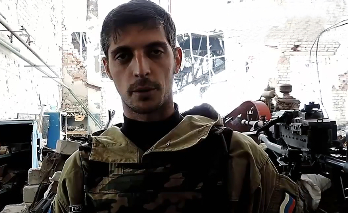 Mikhail Tolstykh, aka Givi, «Somalia Battalion» commander during the fight for control of Donetsk Sergey Prokofiev International Airport.